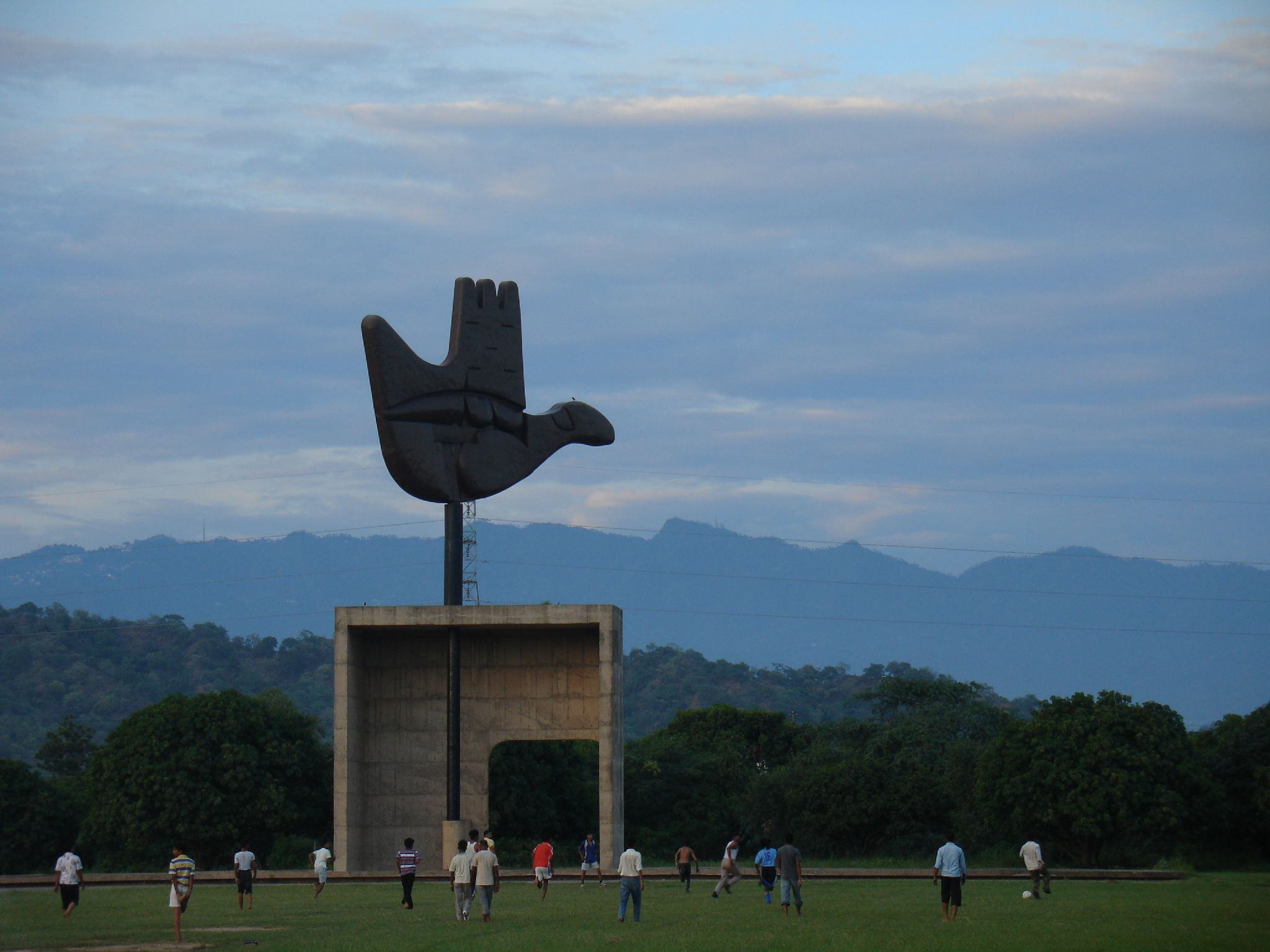 The Open hand is the geographical representation of the city Chandigarh located in North India. It is a Union Territory which is a capital of two states - Punjab and Haryana. The helicopter view of the city shows that the boundry of the city forms the shape of an open hand (like the one above). This Open Hand symbol is located behind the High Court in Chandigarh and it has the tendency to change its direction based on the flow of wind.